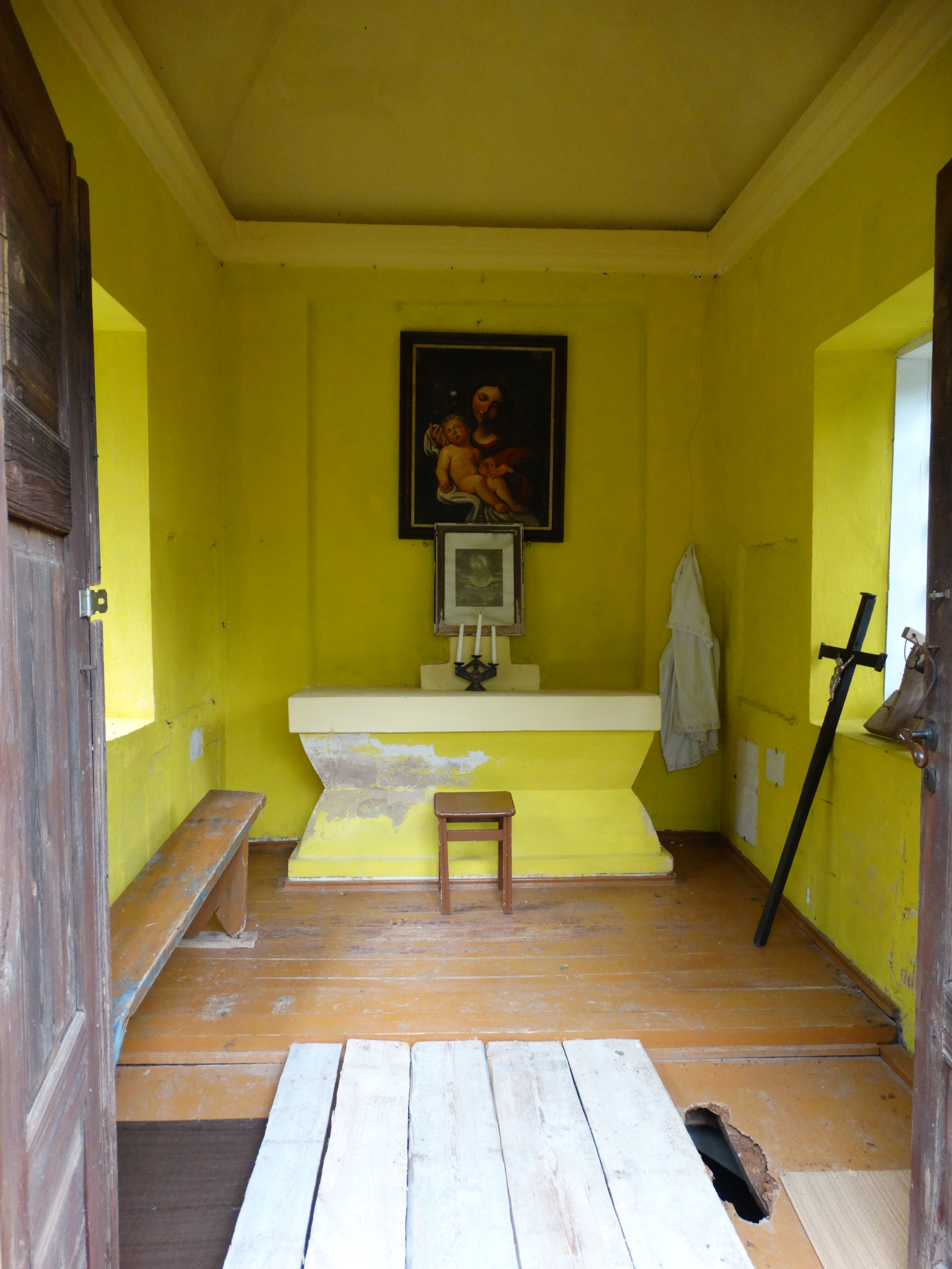 Chapel in Šiauliai, Širvintos District, Lithuania